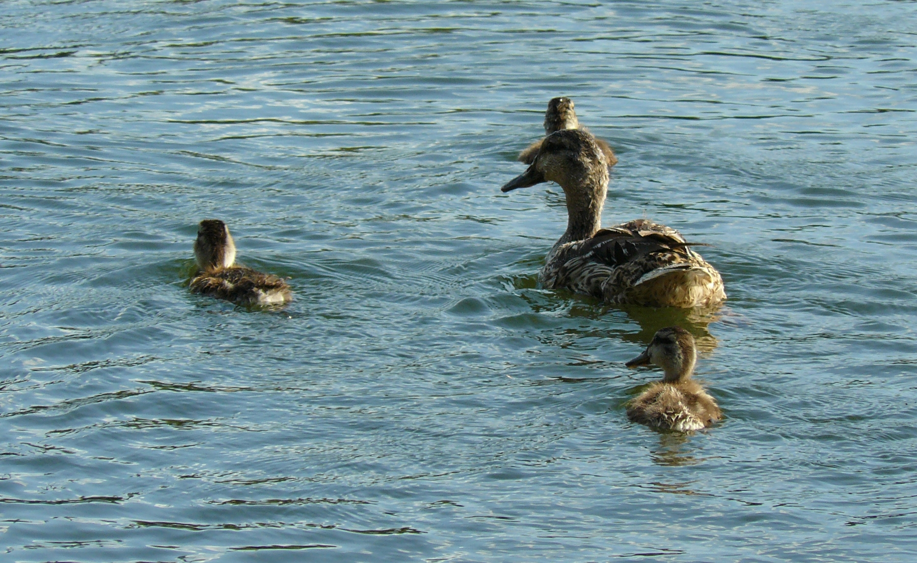 Mallard family